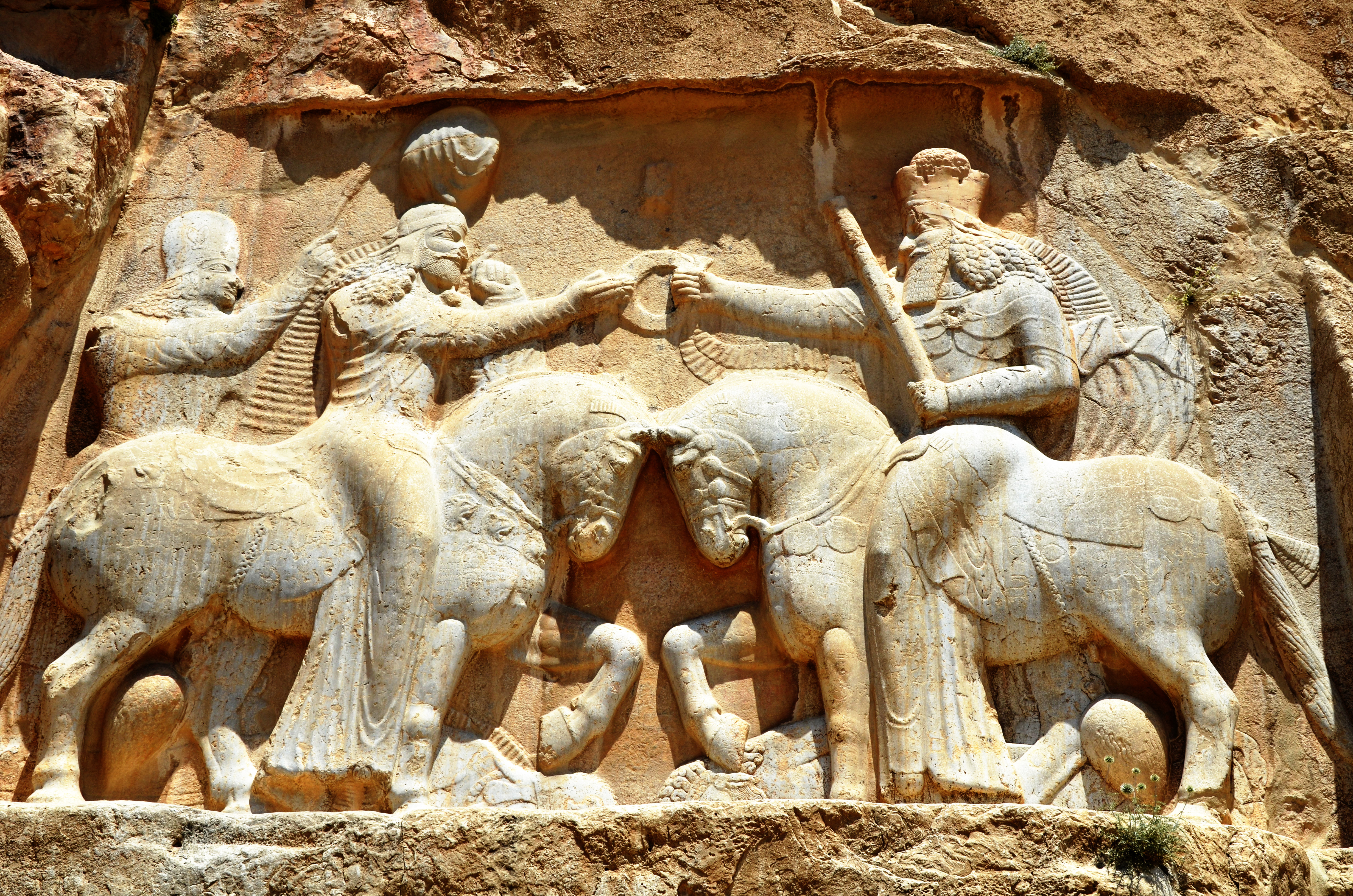 Marvdasht - Naghshe Rostam ( Rostam Inscription )